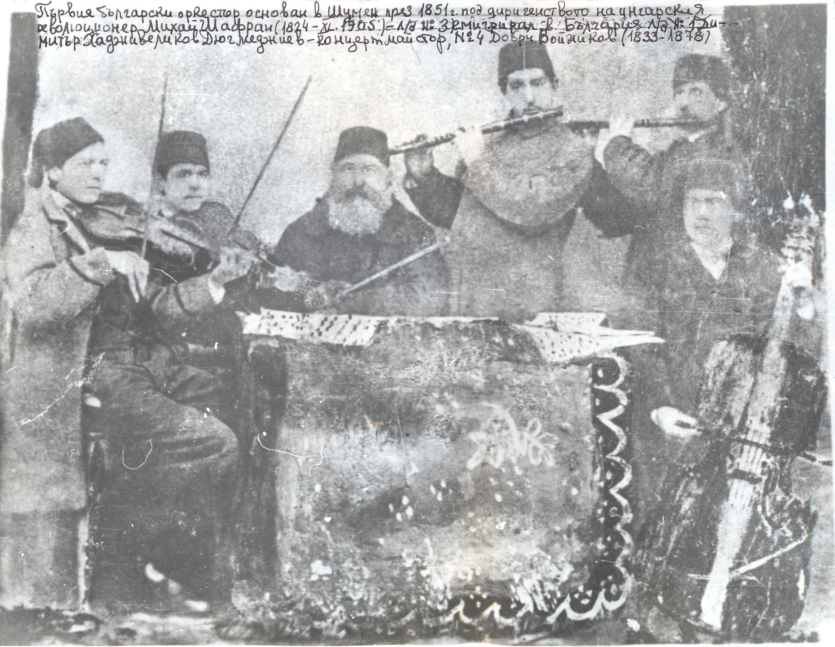 First Bulgarian Orchestra, 1851.